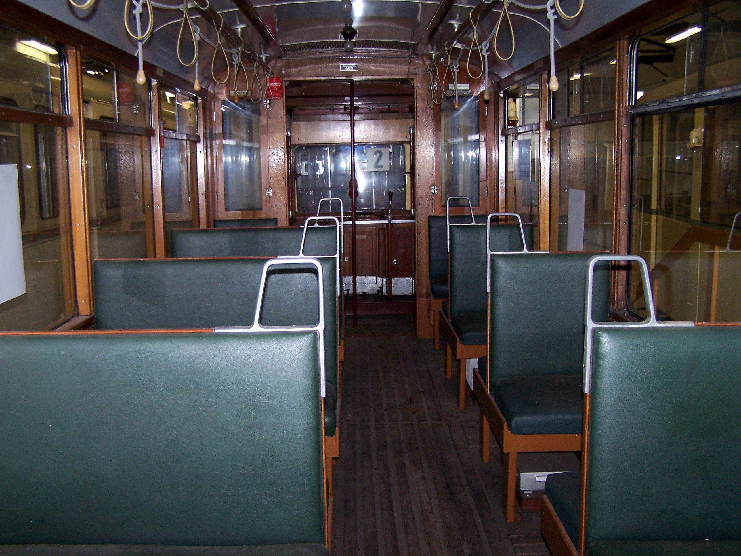 Tramway at Frankfurt am Main: Inside view of VGF type K railcar 104 in the Frankfurt on Main Transport Museum in Frankfurt am Main--Schwanheim